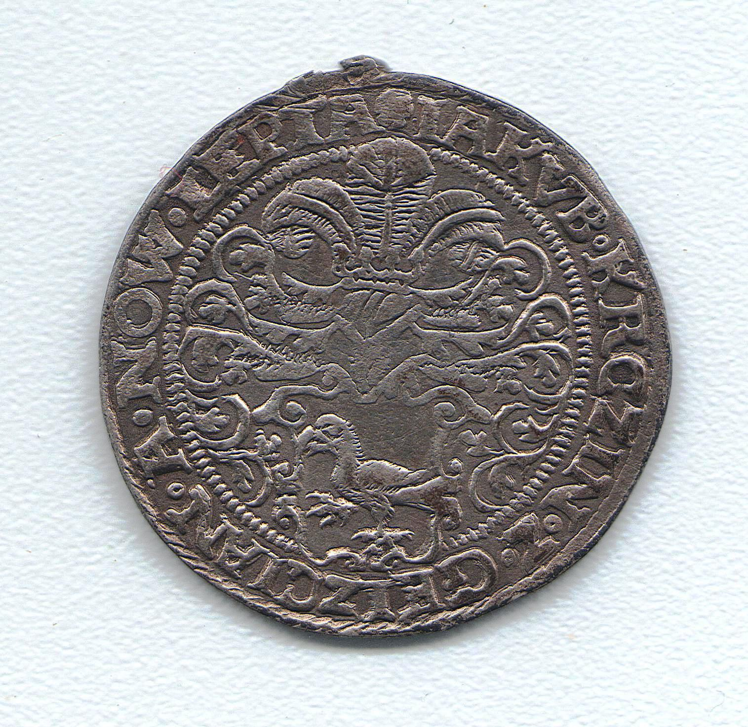 Jakub Krčín Counter 1573 obverse Unknown